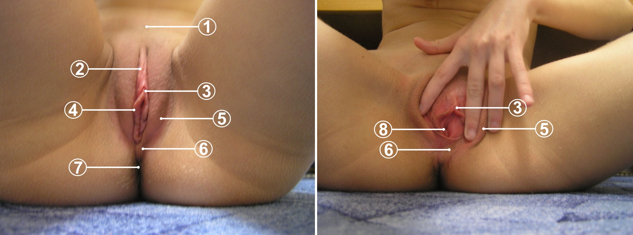 Female human external genitalia